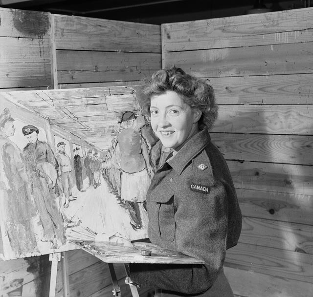 a war artist, London, England. The photographer's name is Karen Margaret Hermeston. In some sources, it is spelled, "Hermiston".